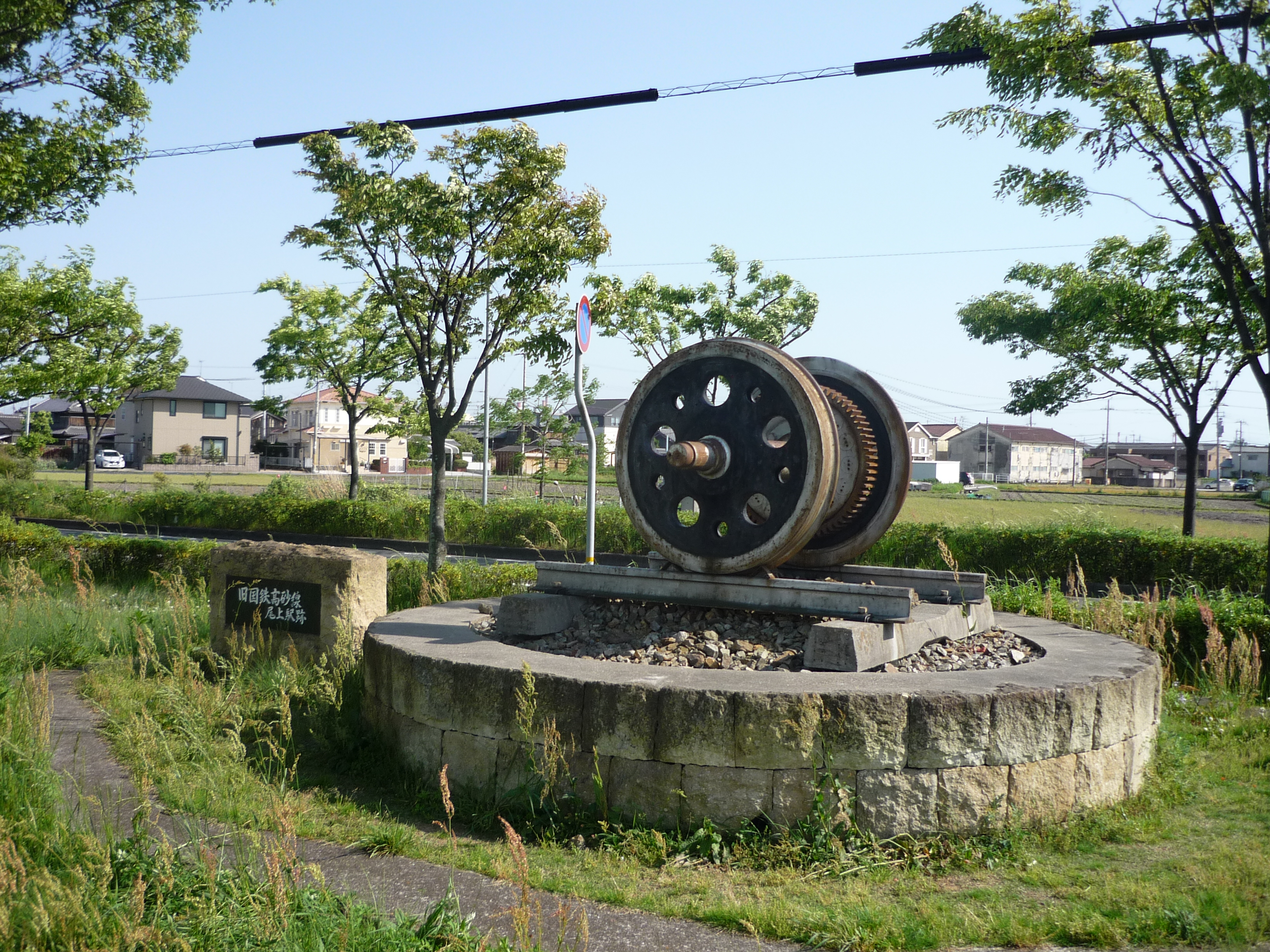 The remains of the former Onoe Station (closed 1984) in Kakogawa, Hyogo, Japan